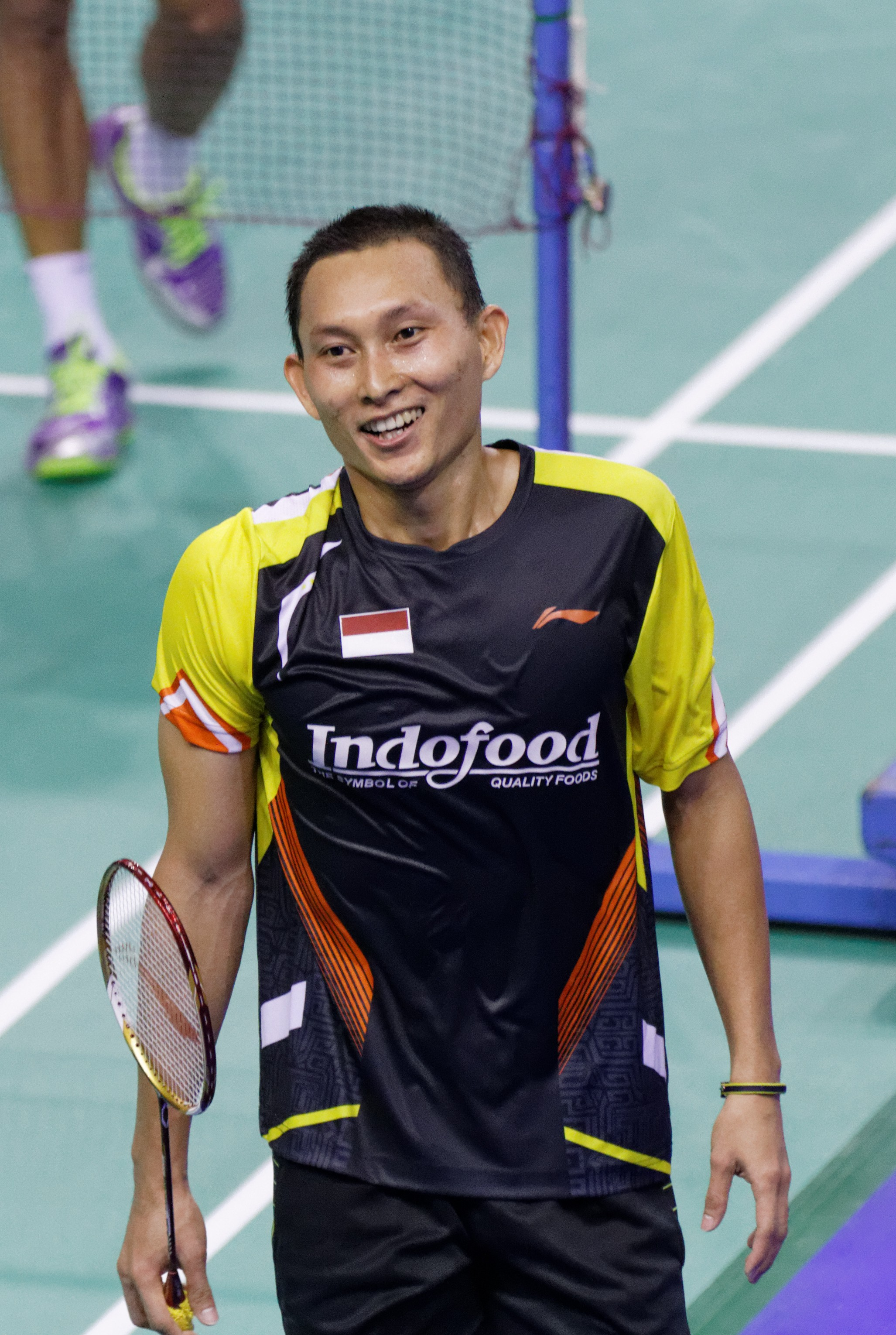 2013 French open. Men's singles eightfinal. Dionysius Hayom Rumbaka vs Sony Dwi Kuncoro.